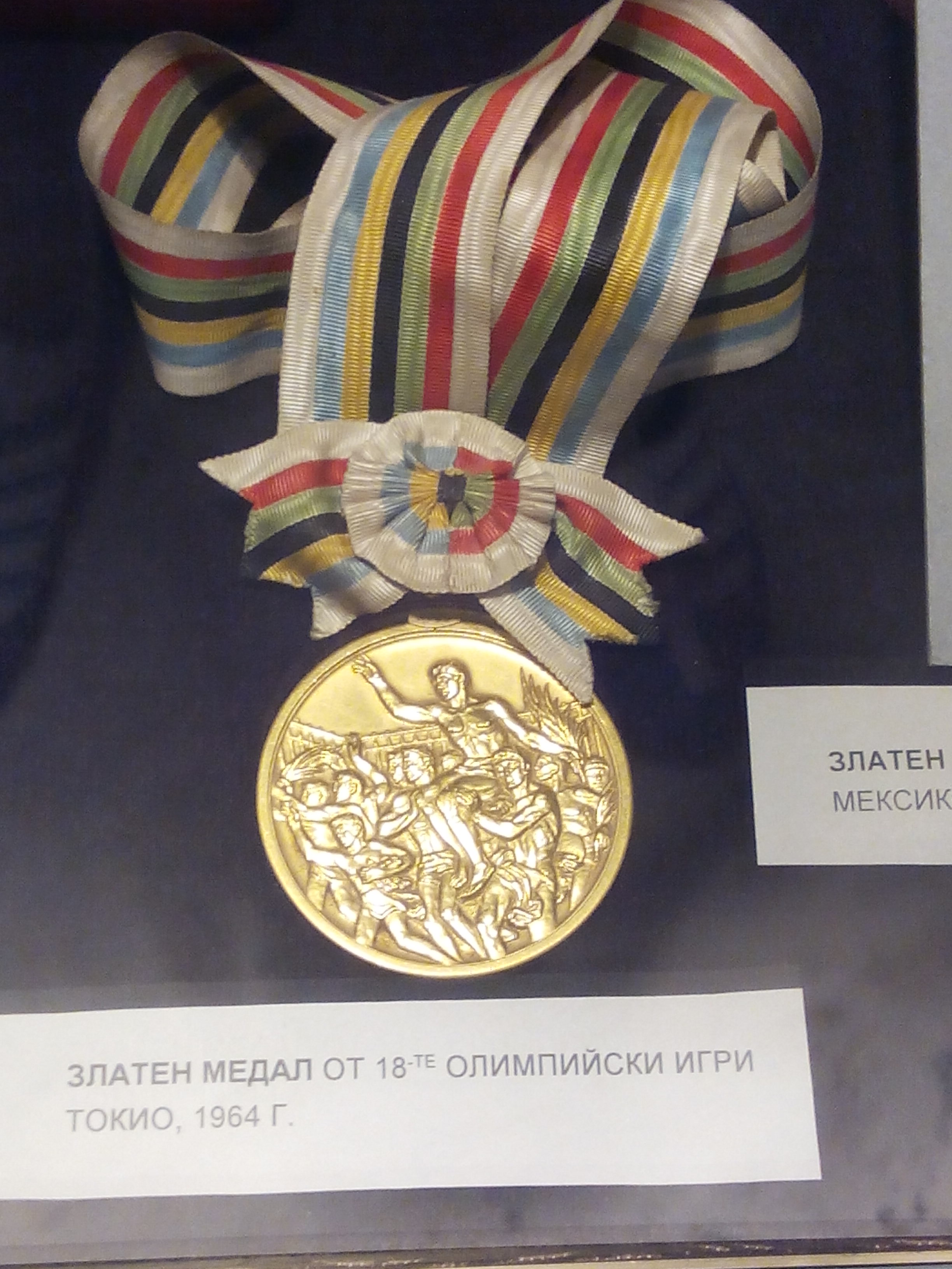 Olympic medal of wrestler Boyan Radev by Summer Olympic Games in Tokyo 1964